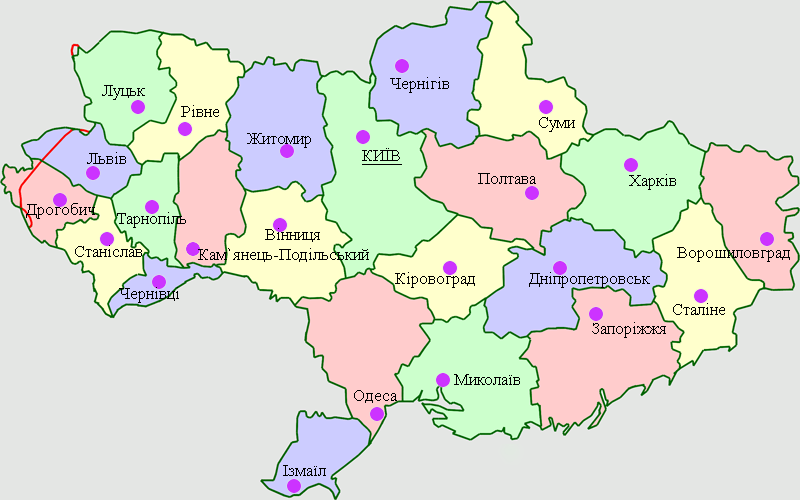 map of division of Ukrainian SSR (Ukraine) in 1940 - 1945